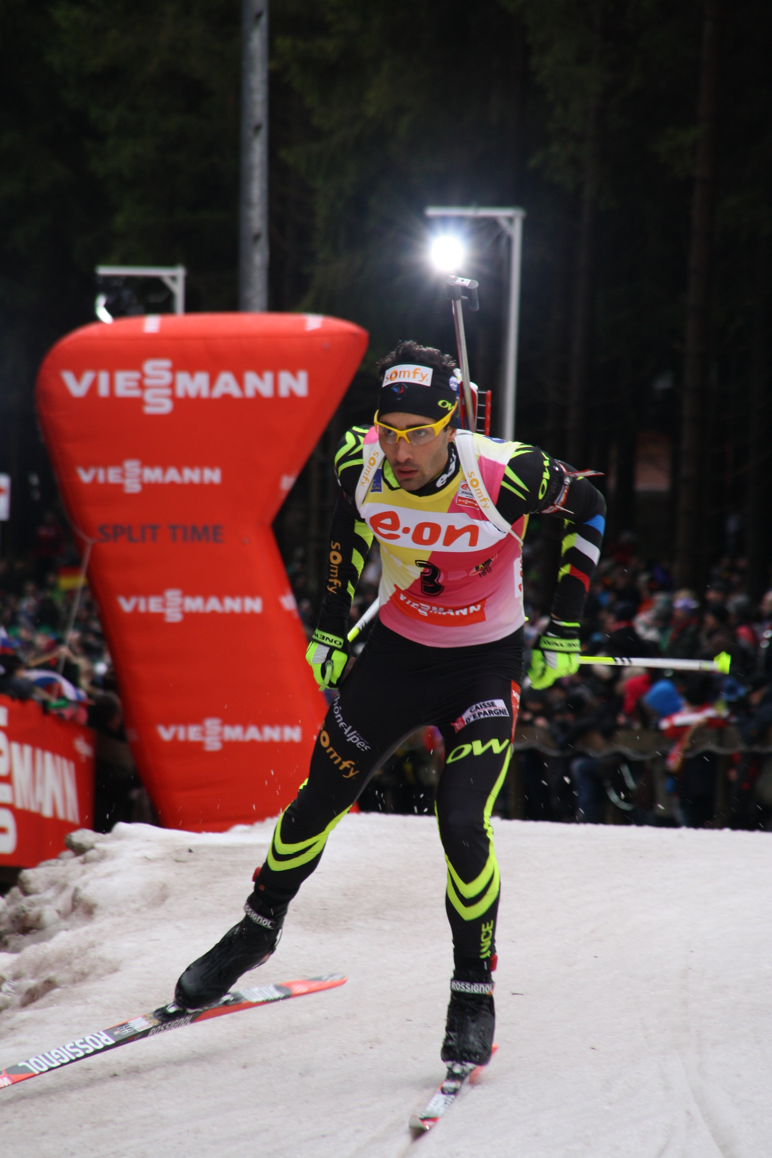 Biathlon World Cup Oberhof 2014 - Mens Pursuit